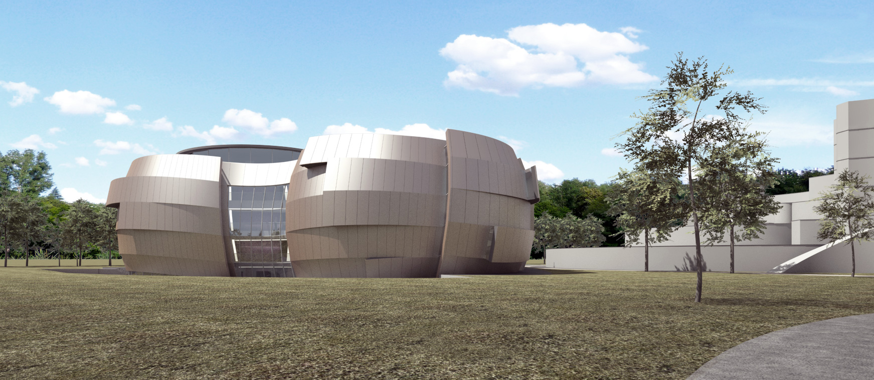 A first artist’s impression of the stunning planetarium and visitor centre to be built at ESO Headquarters near Munich, Germany. The new building, conceived by Darmstadt-based architects Bernhardt + Partner, and with construction to be funded by the Klaus Tschira Stiftung, is designed to complement the existing ESO site. When viewed from above the building symbolises a binary star system about to go supernova.